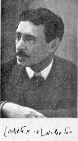 Ba'al Machshavot, pseudonym of Israel-Isidor Elyashiv (1873-1924), Yiddish critic